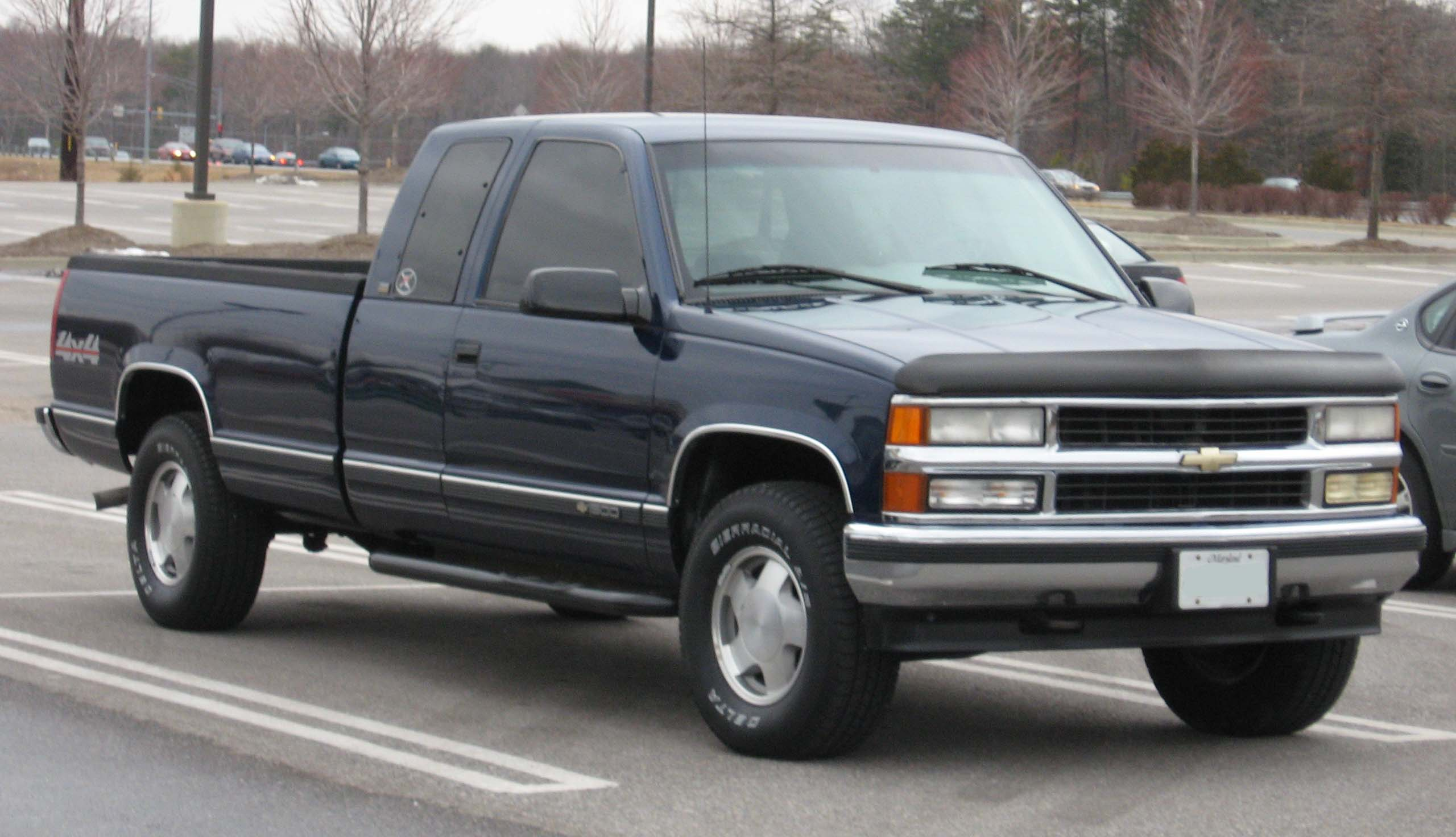 1988-1999 Chevrolet C/K photographed in USA.